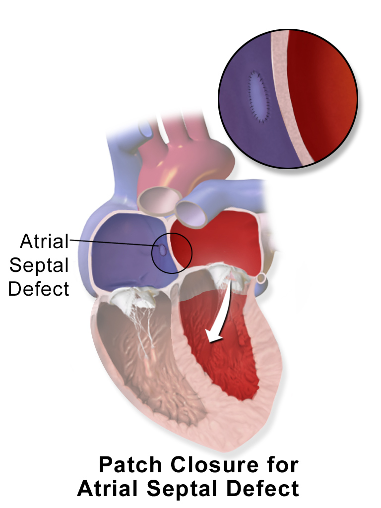 Atrial Septal Defect (Patch Closure). See a related animation of this medical topic.